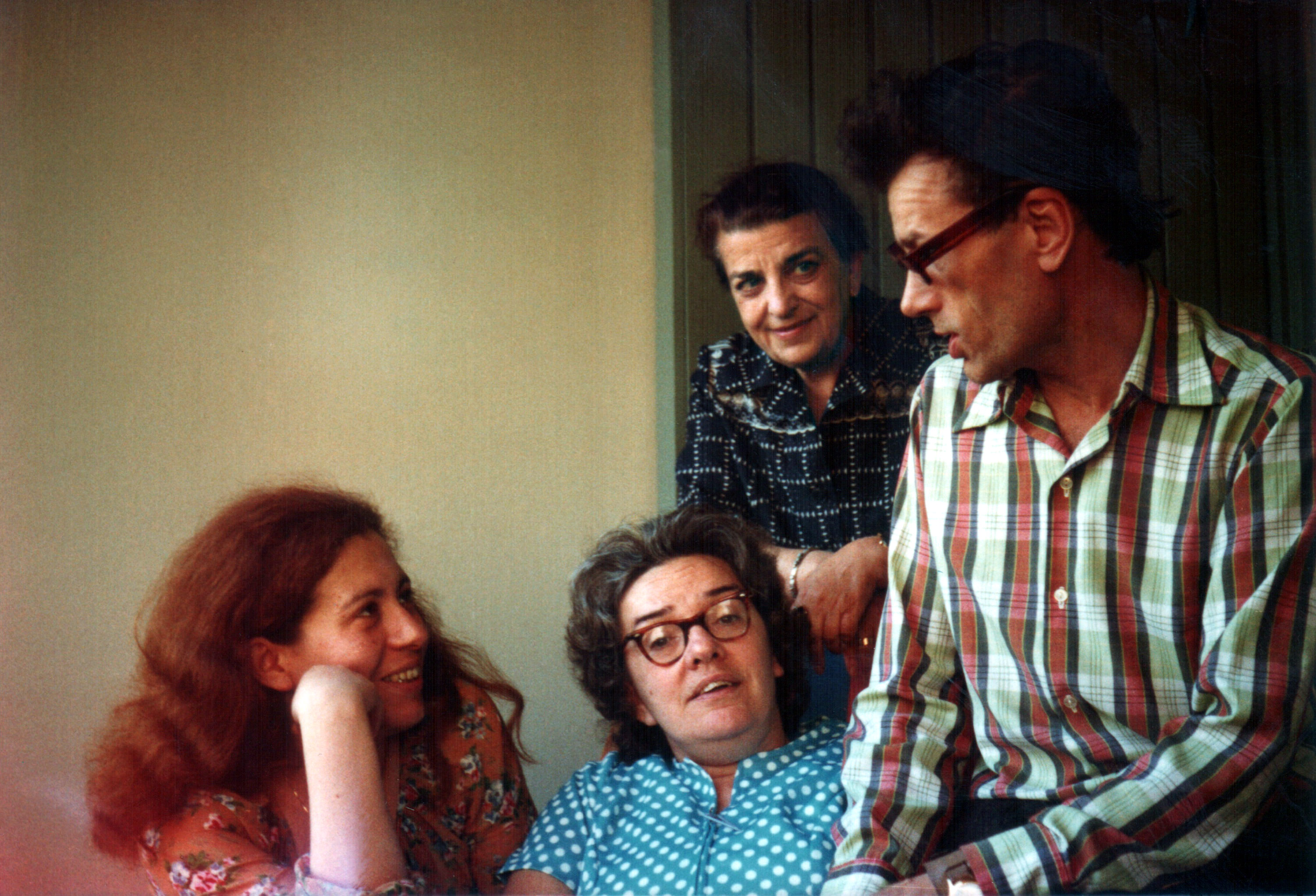 Soviet dissidents Yulia Vishnevskaya, Lyudmila Alexeyeva, Dina Kaminskaya, Kronid Lyubarsky. Munich, 1978.